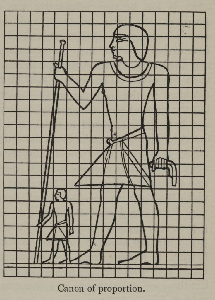 Two men drawn in the Ancient Egyptian style and overlaid with a grid to display proportion.